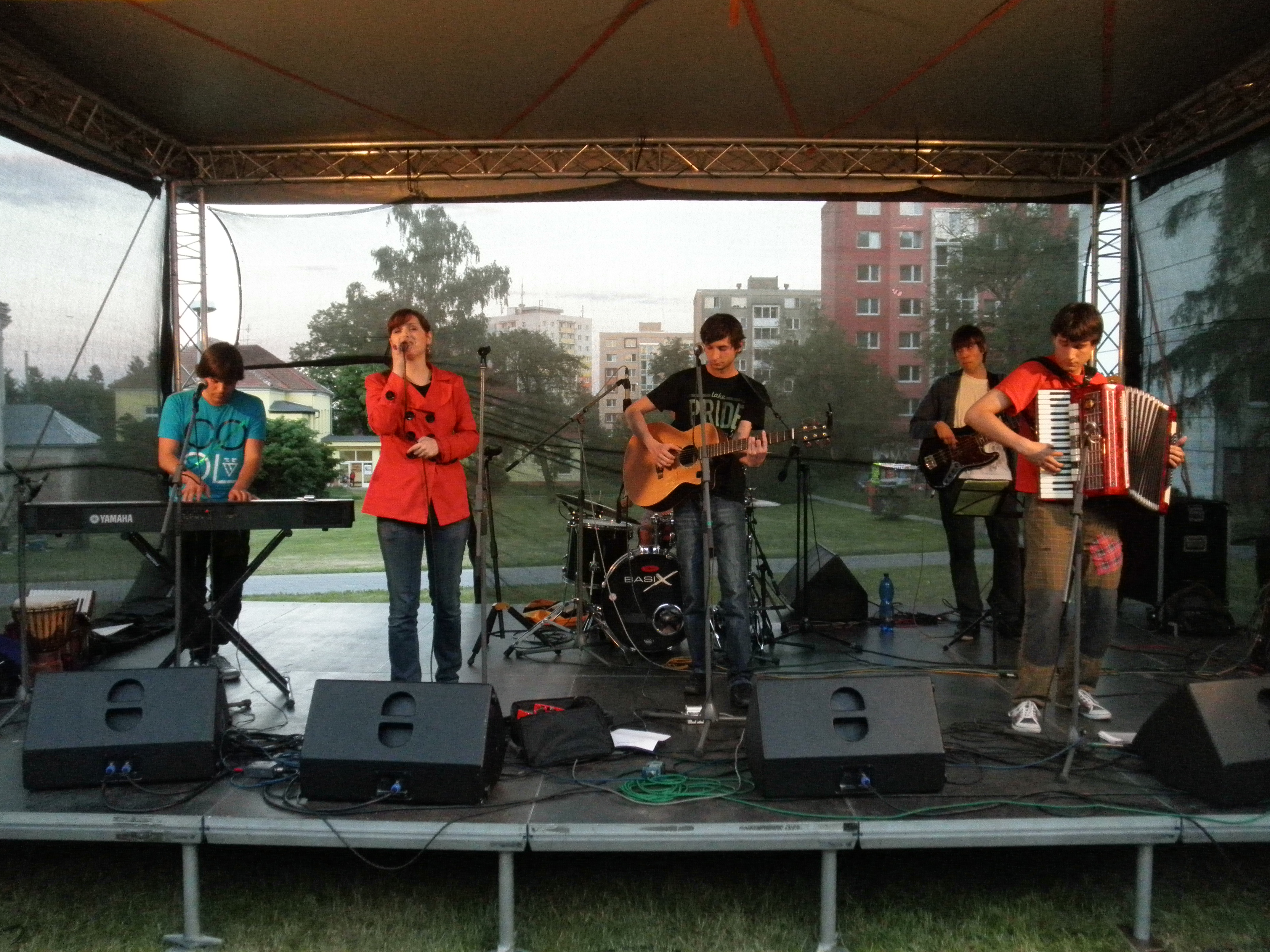 Czech music group Bujabéza.